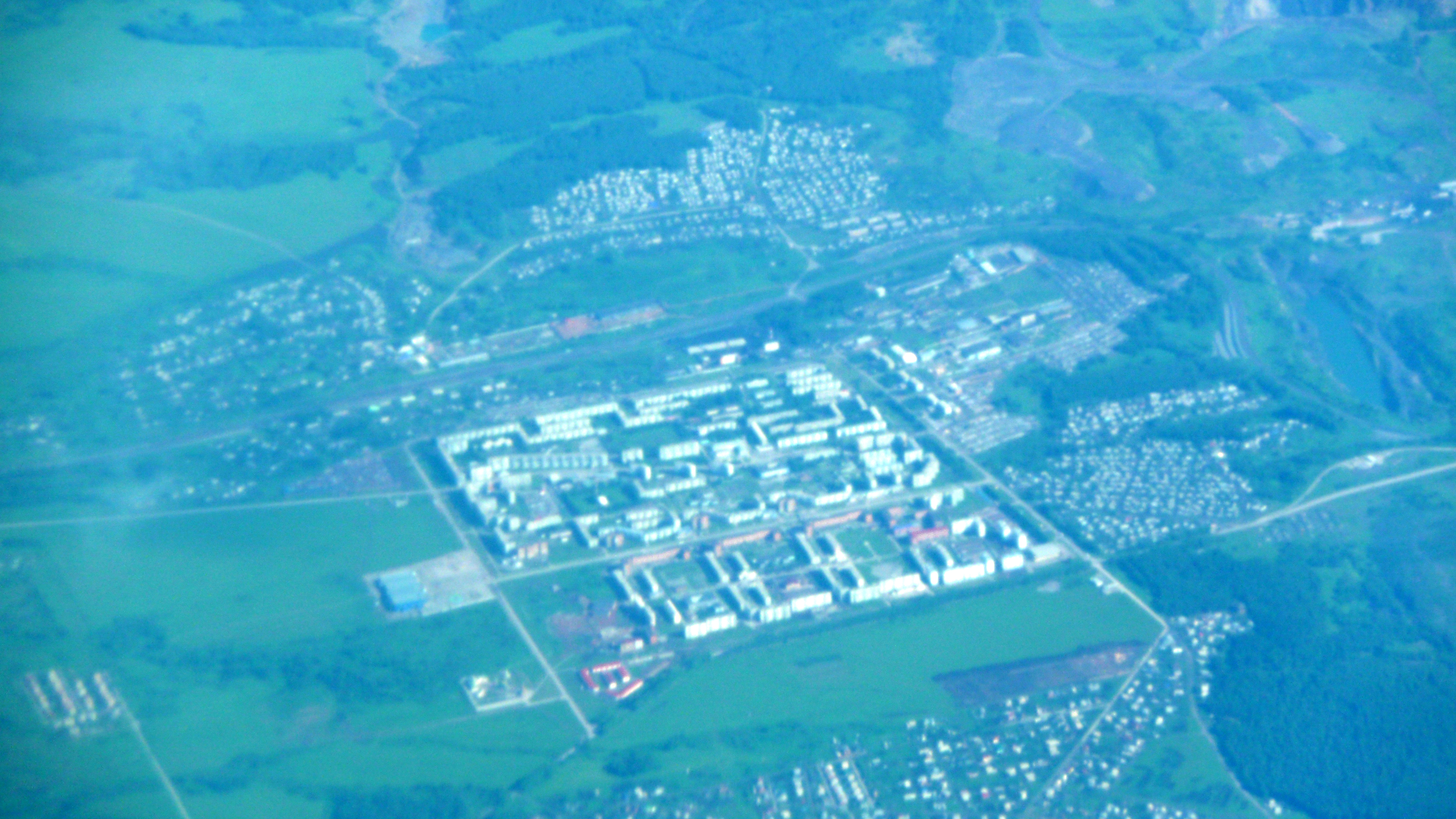 Kiselevsk - Coal Mining village in the Kemerovo province in Siberia (Russia)